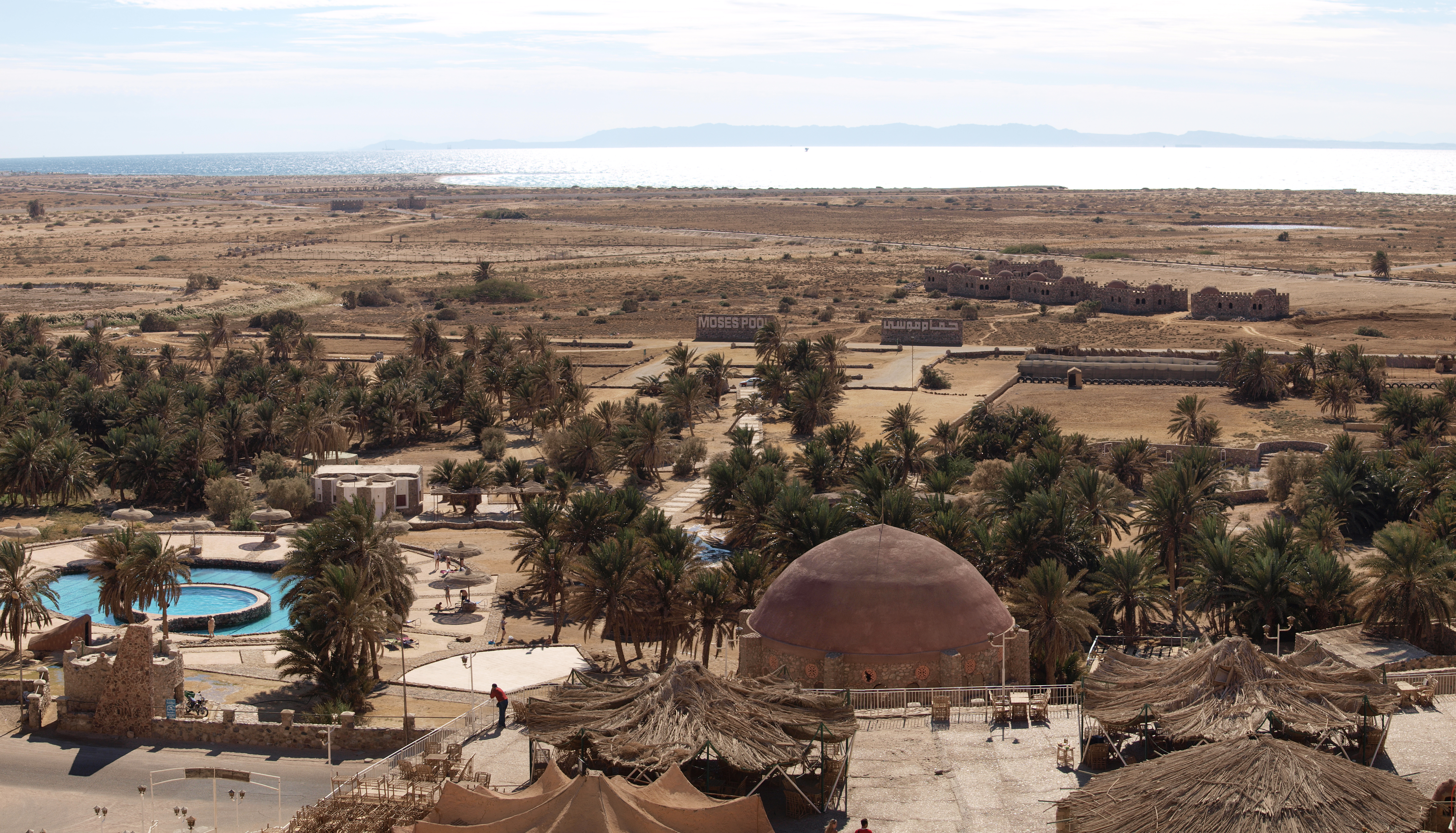 Hammam Musa (Moses' Bath), hot spring, El-Tor. South Sinai. Egypt.